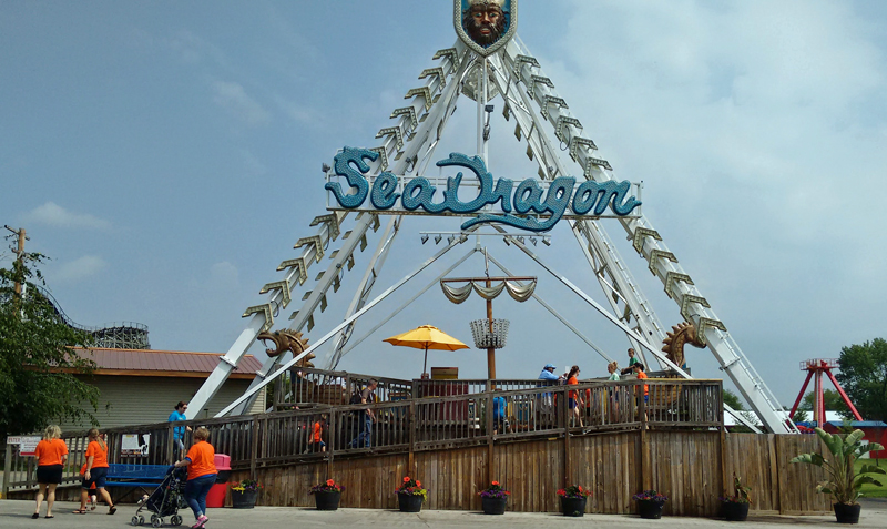 The Sea Dragon ride at Beech Bend Park in Bowling Green, Kentucky